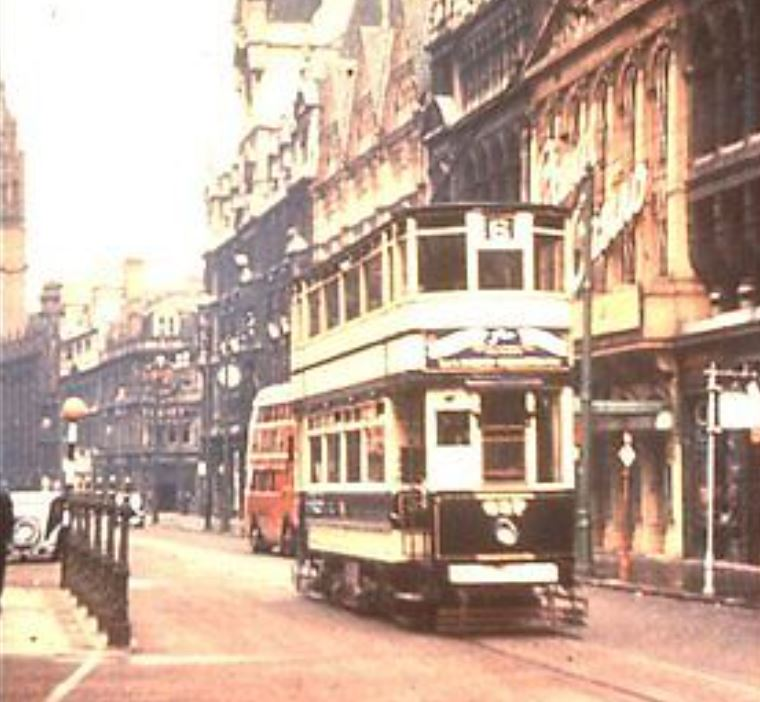 Colour slide of Birmingham Tram along Corporation Street.